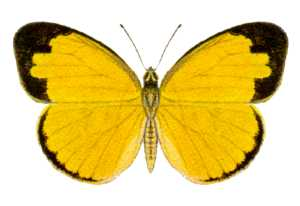 Eurema hecabe hecabe